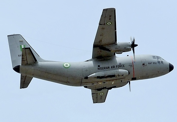 Nigerian Air Force Alenia G-222